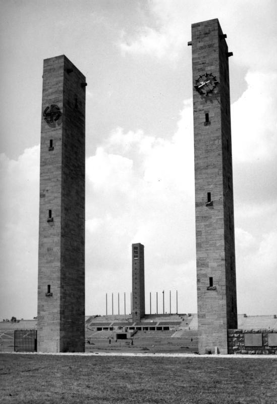 Sachsenturm (Tower of the Saxons, south) and Friesenturm (Tower of the Frisians, north) at the southwestern corner of the Berlin Olympic Stadium, simultaneously at the northeastern corner of the Maifeld (Mayfield), Berlin